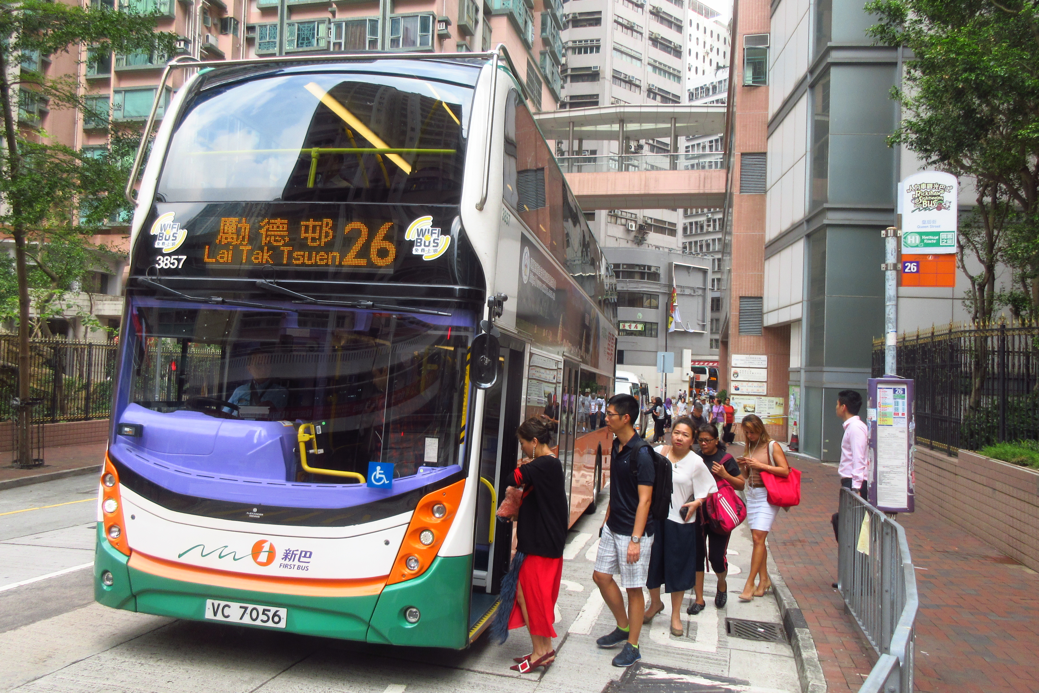 Queen Street, Sheung Wan, Hong Kong, September 2018